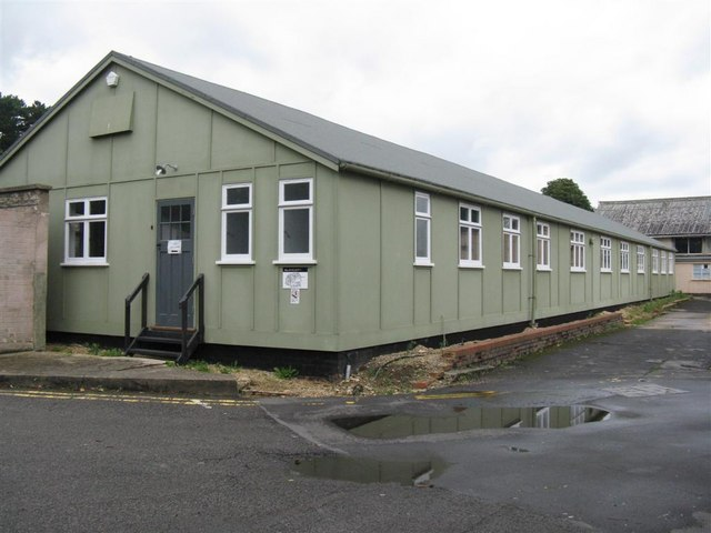 Hut 8, Bletchley Park One of the historic buildings at the National Codes Centre Museum near Milton Keynes, where Alan Turing worked, and now a special exhibitions area.